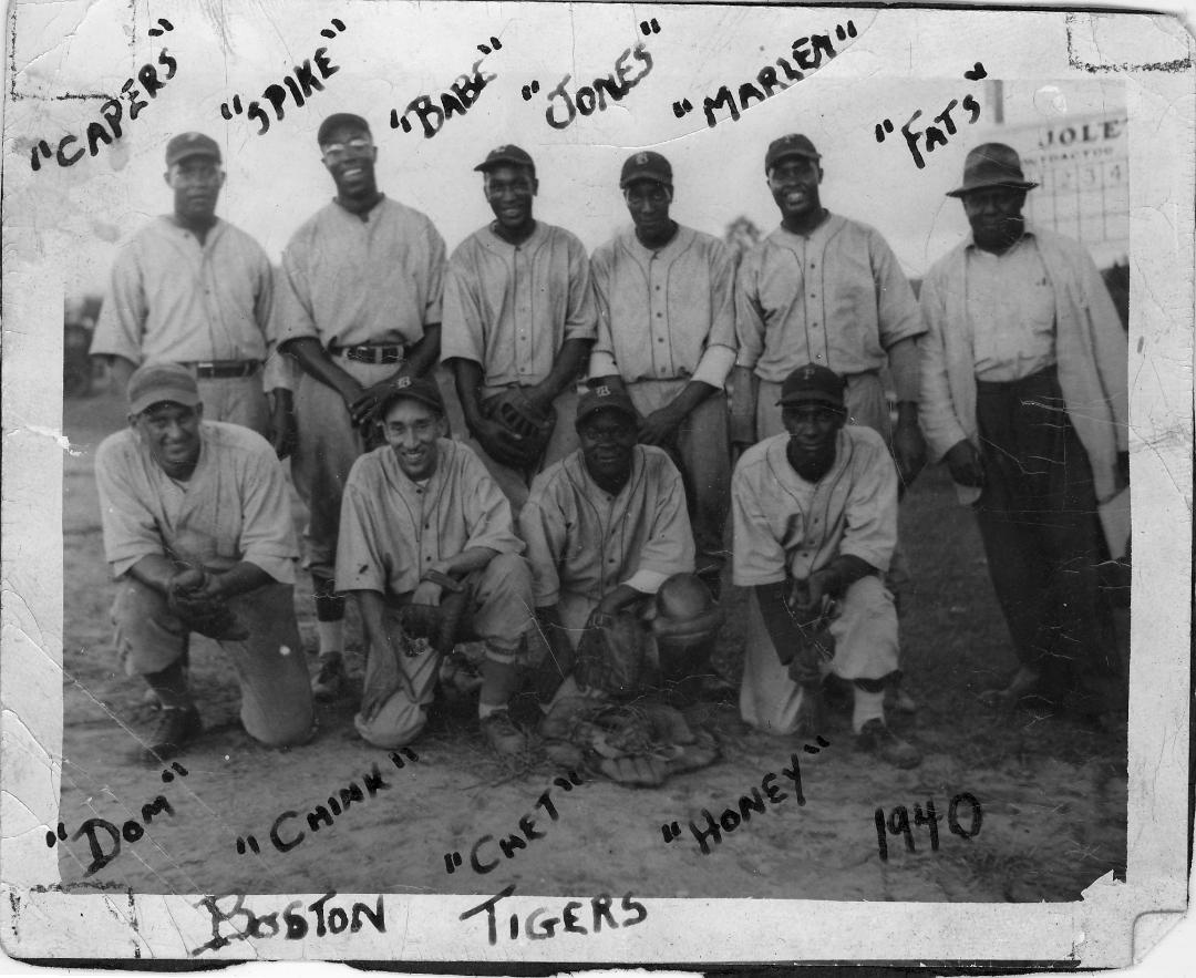 Players of the Boston Tigers Negro Leagues Team